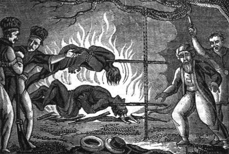 "Socivizca roasting two Turkish prisoners", engraving published in 1825.